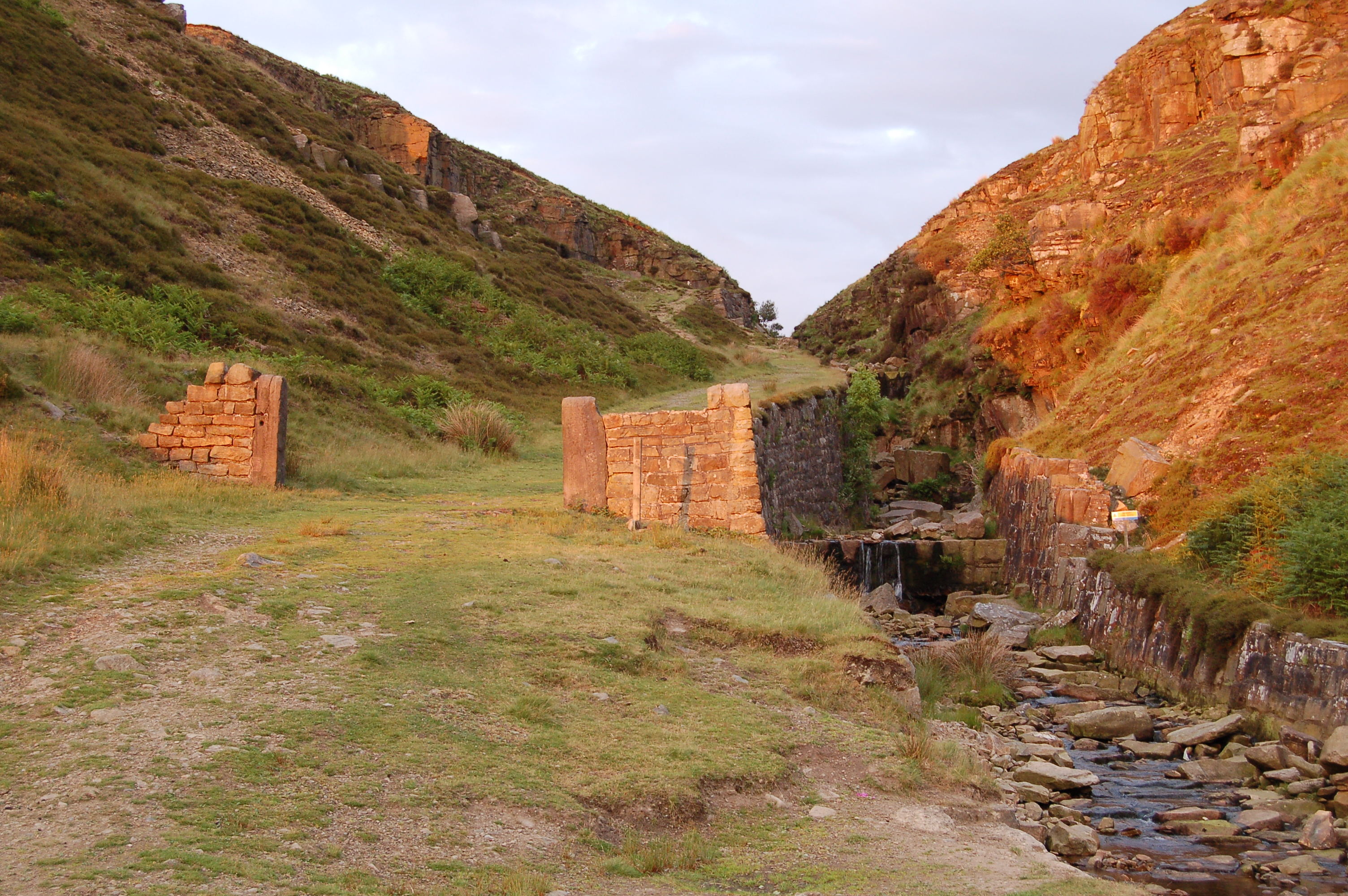 By me, released any use